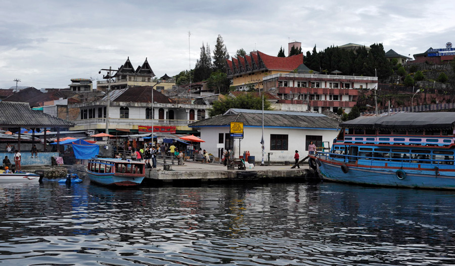 Parapat harbor, Lake Toba, Sumatra